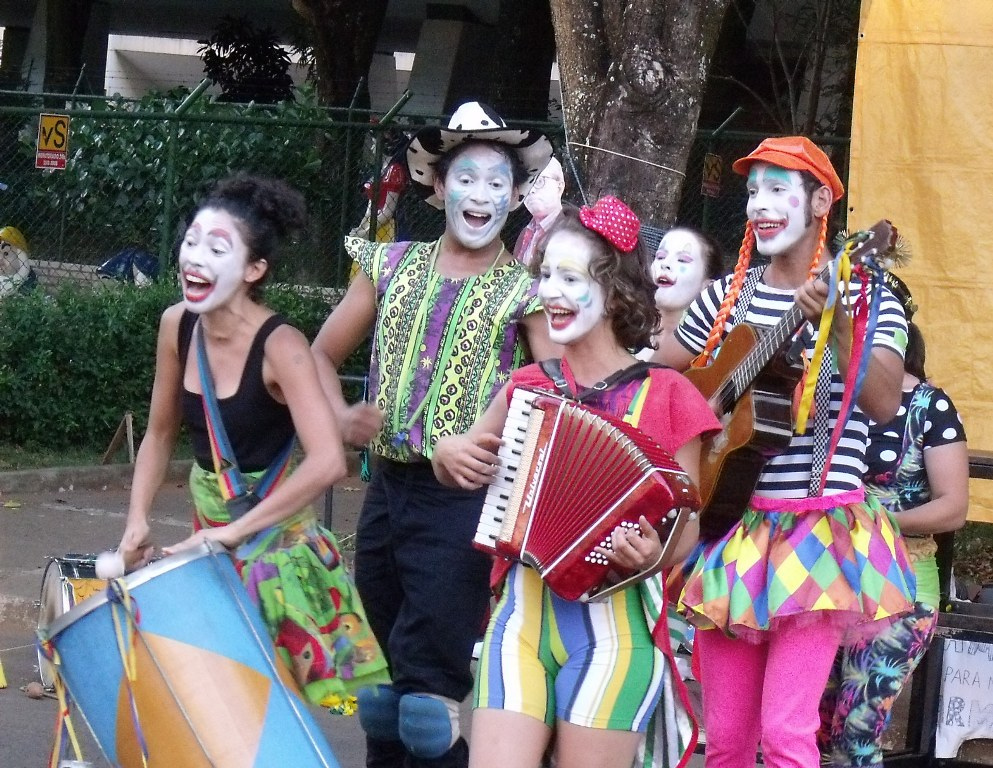 Street theatre Esquadrão da Vida performs in Brasília, capital of Brazil.